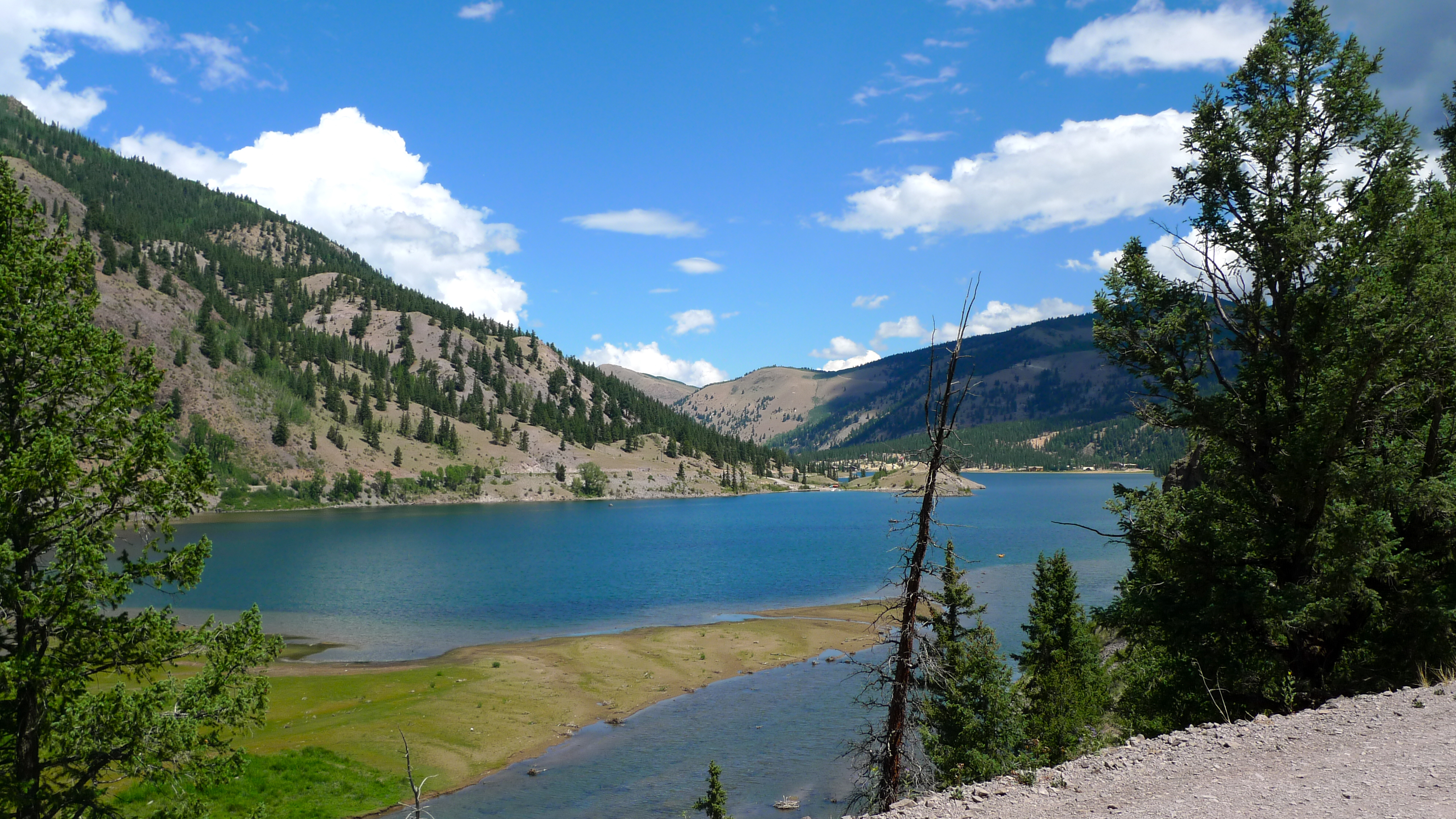 Lake San Cristobal CO. Colorado's second-largest natural lake was formed about 700 years ago, when the Slumgullion Earthflow blocked the Lake Fork of the Gunnison River.